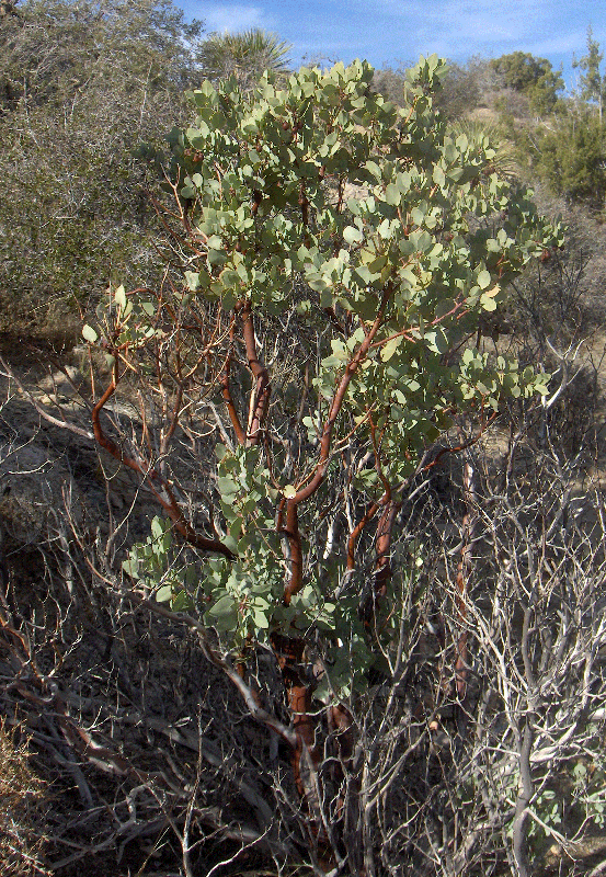 Greenleaf-Manzanita